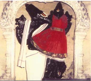 NithyaKalyana Perumal from Tiruvedendai